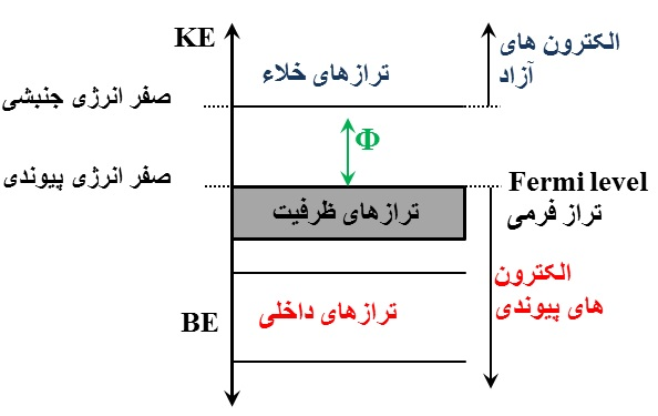 Energy levels diagramaa